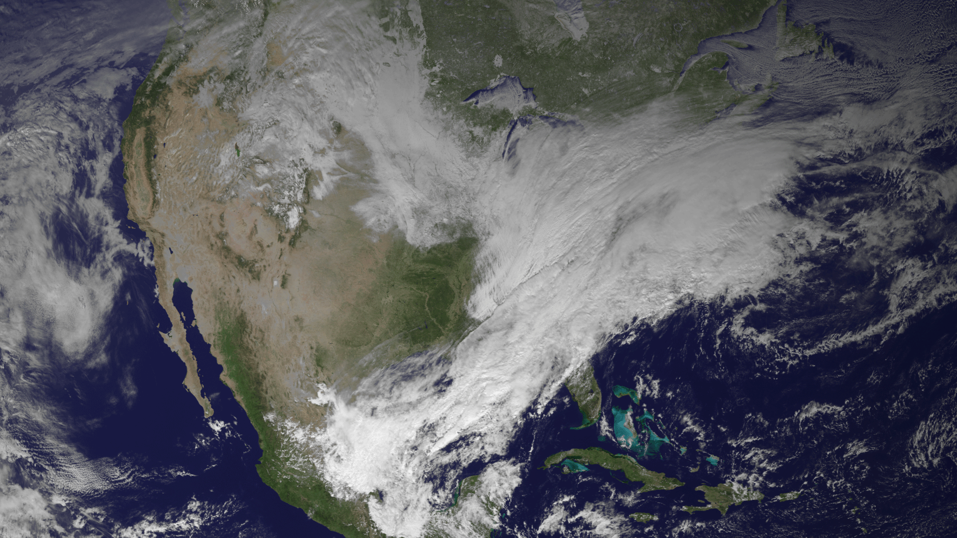 A GOES-13 satellite image captured at 17:45 UTC on January 2, 2014, depicting an ongoing blizzard across portions of the Ohio River Valley and the Northeast United States as cold air from Canada moves across warm air from the Gulf of Mexico.